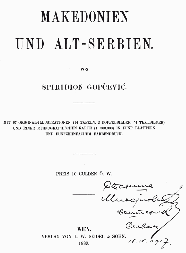 Makedonien und Alt Serbien